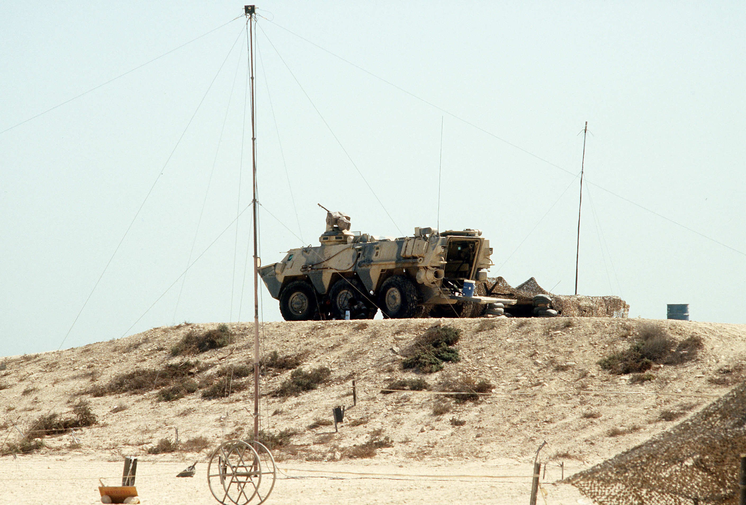 An Egyptian BMR-600 infantry fighting vehicle is positioned at a base camp during Operation Desert Shield.